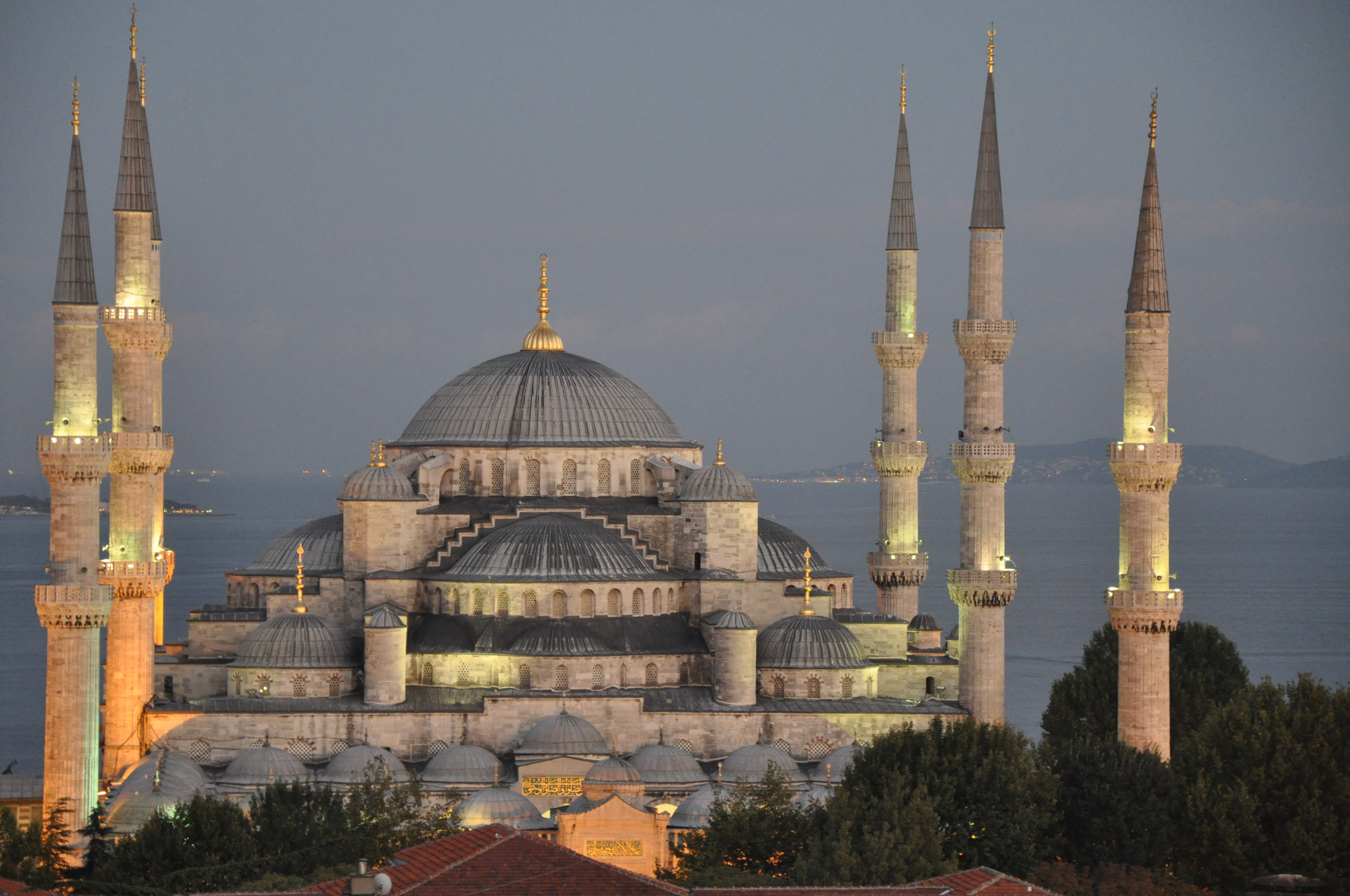 Sultan Ahmed Mosque (Blue Mosque) at dusk